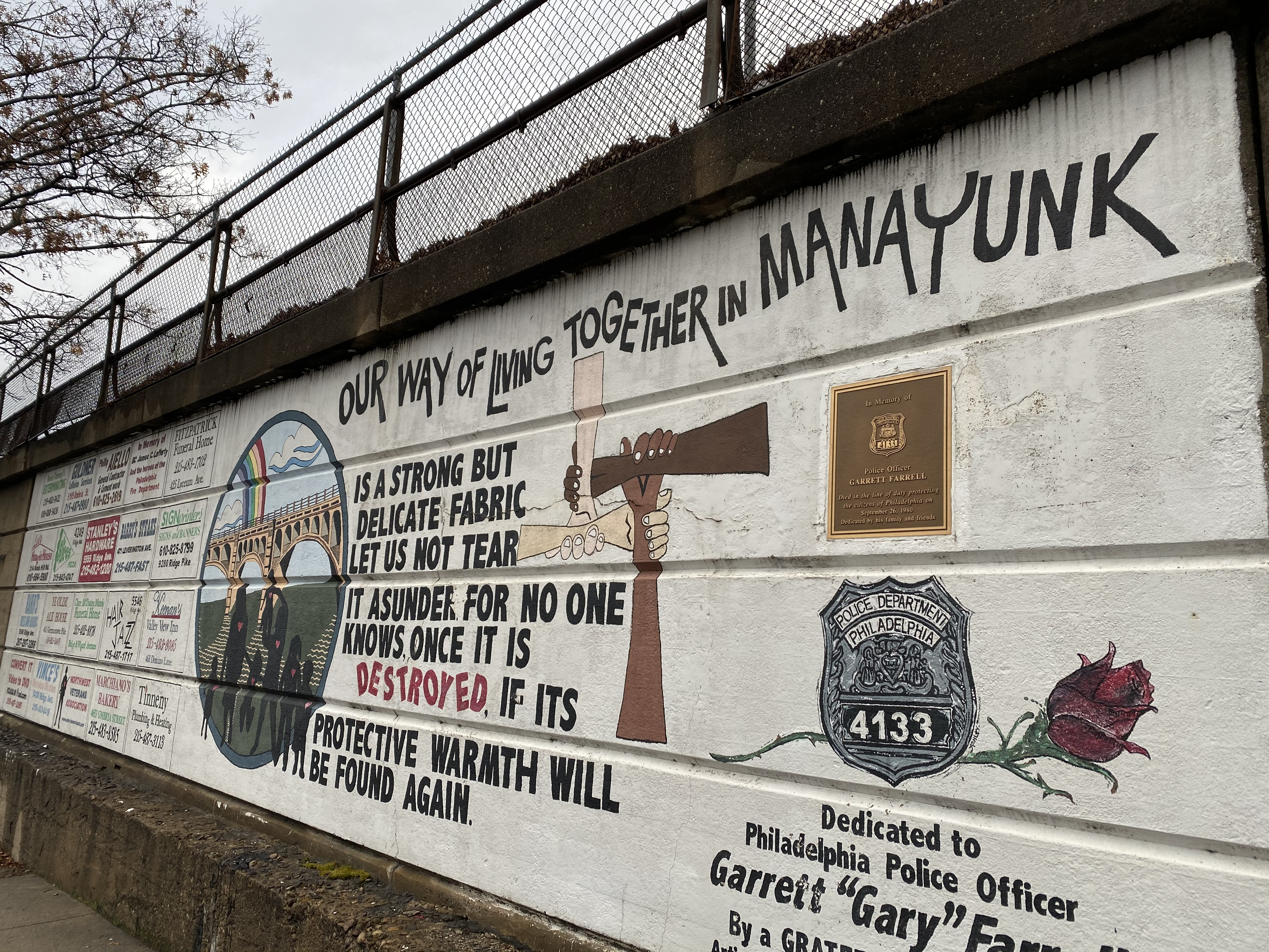 Manayunk, PA Taken in March 2020